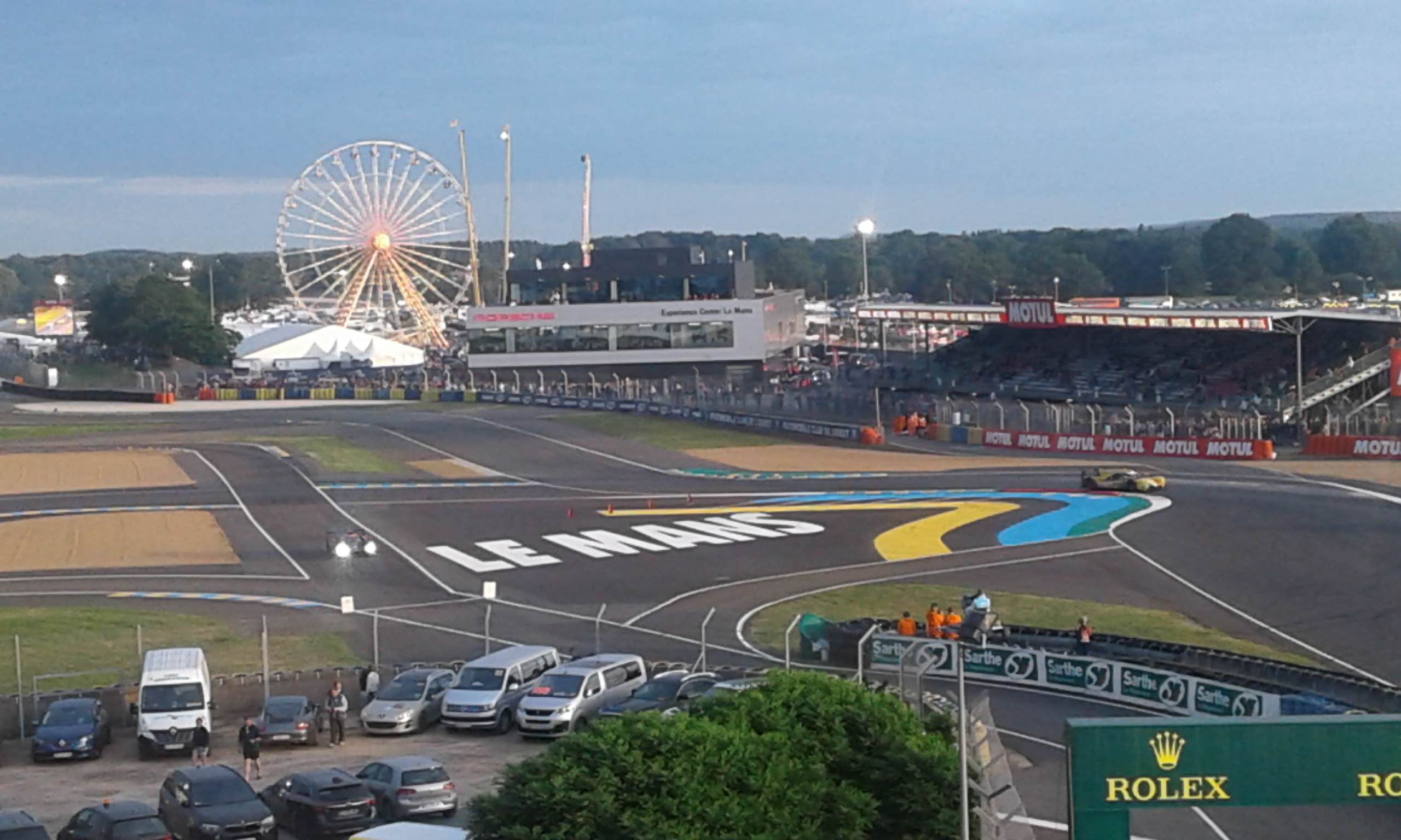 Raccordement Curves - Circuit 24 heures of Le Mans